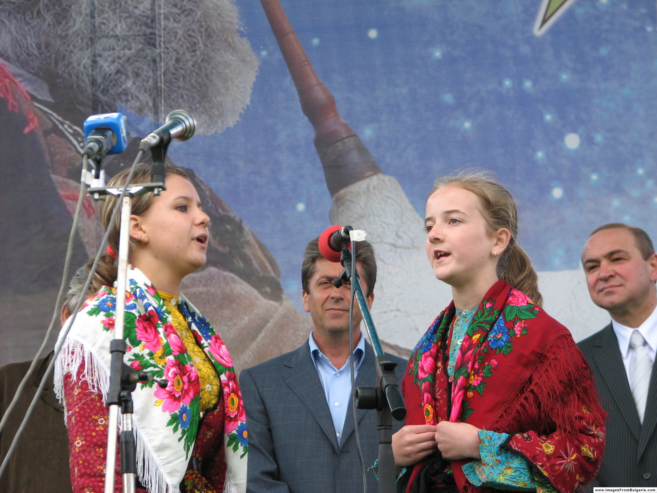 Rozhen National Folklore Fair, Bulgaria. Author: Stoycho Bozukov.